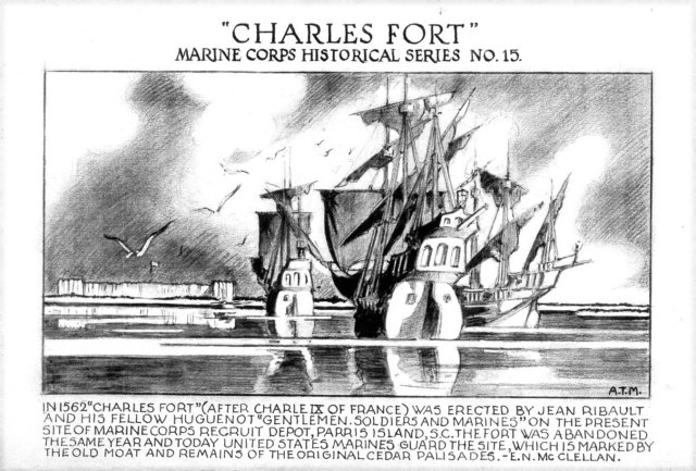 Charles Fort, ink drawing by Arman Manookian, Honolulu Academy of Arts